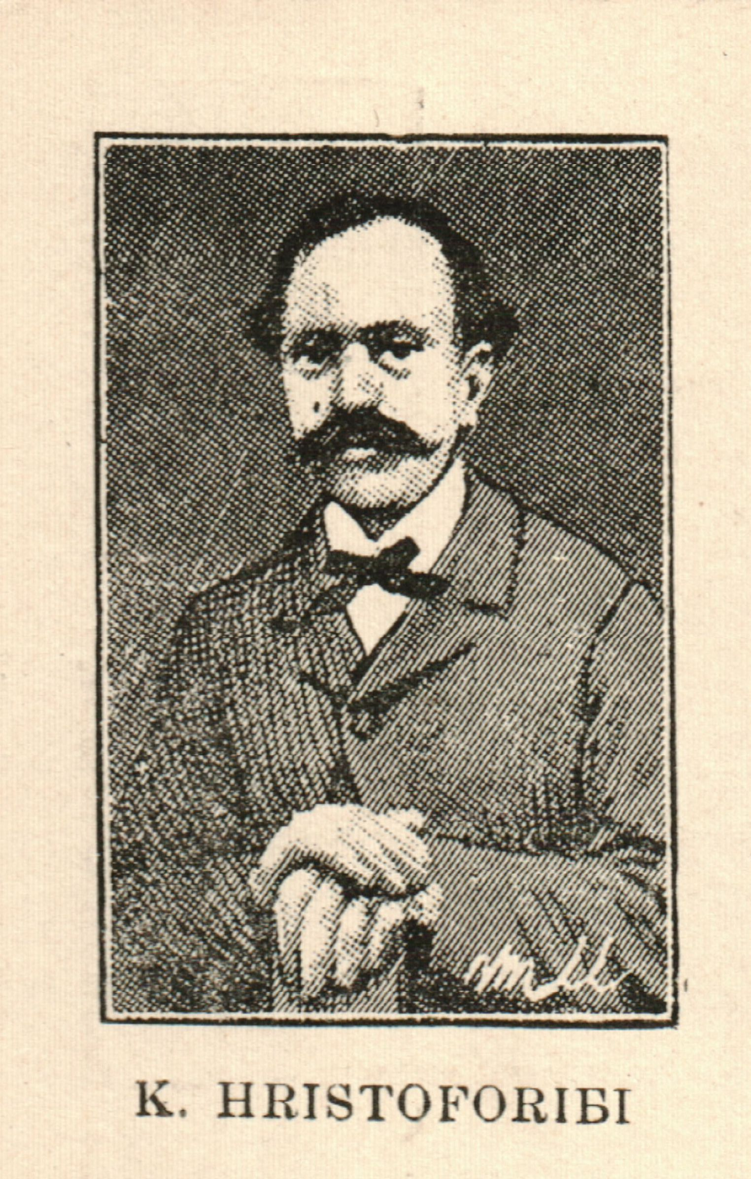 Kostandin Kristoforidhi